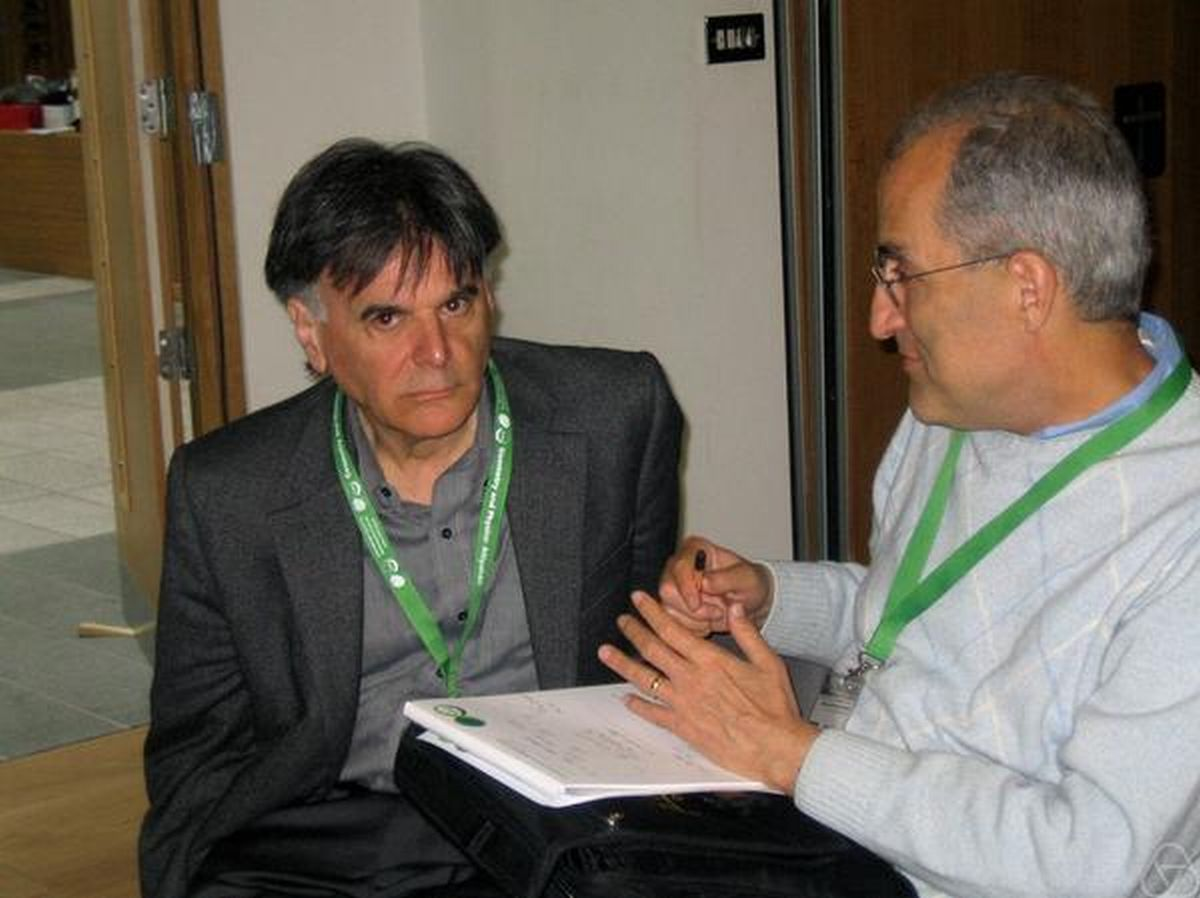 Graeme Segal (left), Edward Witten, Edinburgh 2009